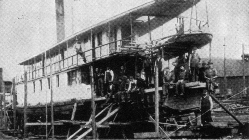 Steamboat Camano raised following sinking in 1912 at Everett.